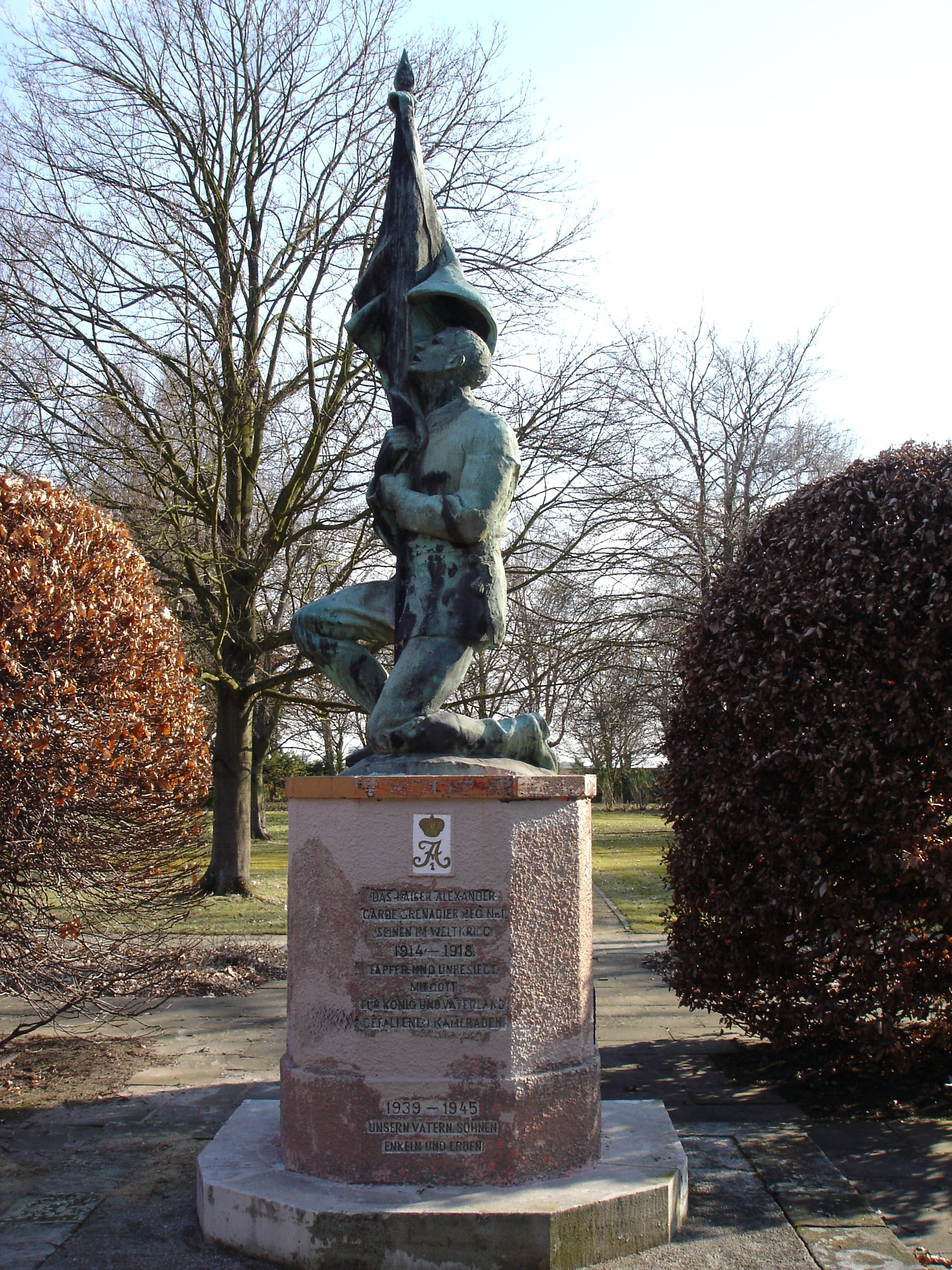 Monument to KAGGR 1 aka (Kaiser Alexander Garde-Grenadier-Regiment Nr. 1), sculpted by Kurt Kluge in 1927, today at Friedhof Columbiadamm.